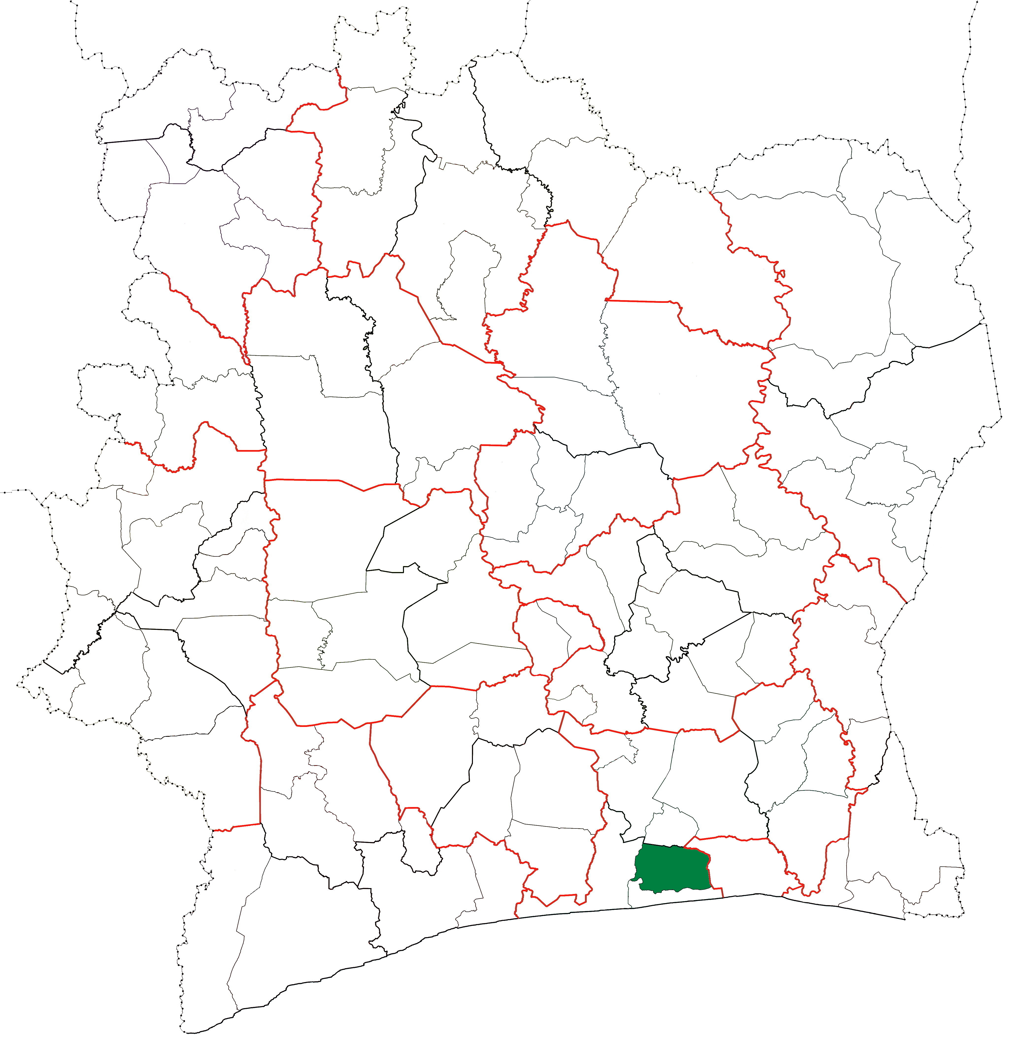 Locator map for Dabou Department in Côte d'Ivoire.